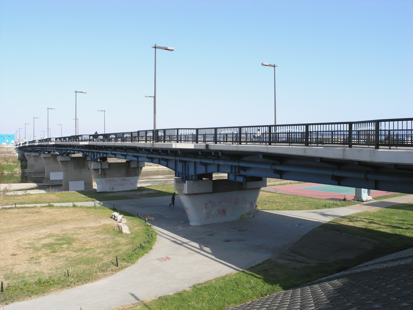 Kouya-Ohashi (bridge), Hirano, Osaka